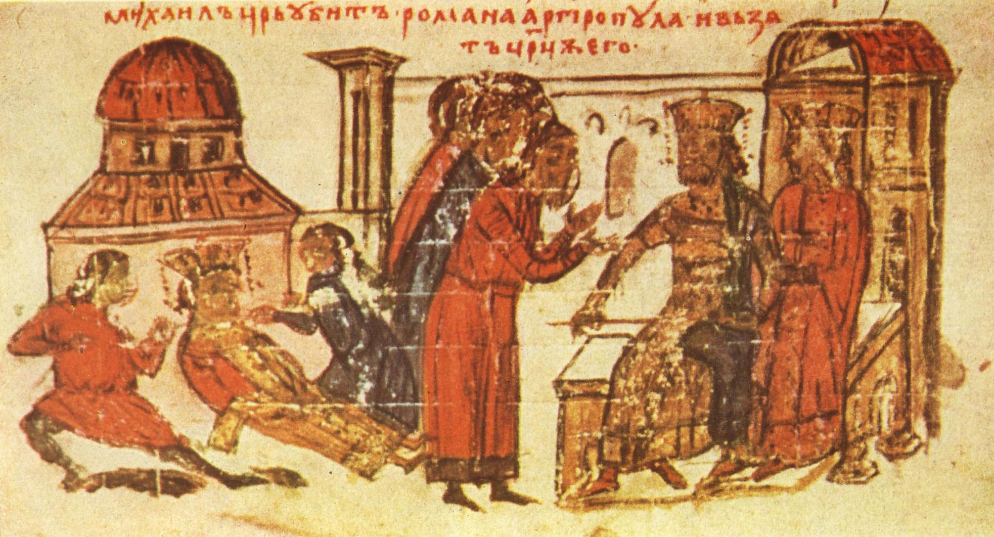 Miniature 67 from the Constantine Manasses Chronicle, 14 century: Murder of emperor Romanos III Argyros under the order of Michael IV the Paphlagonian.